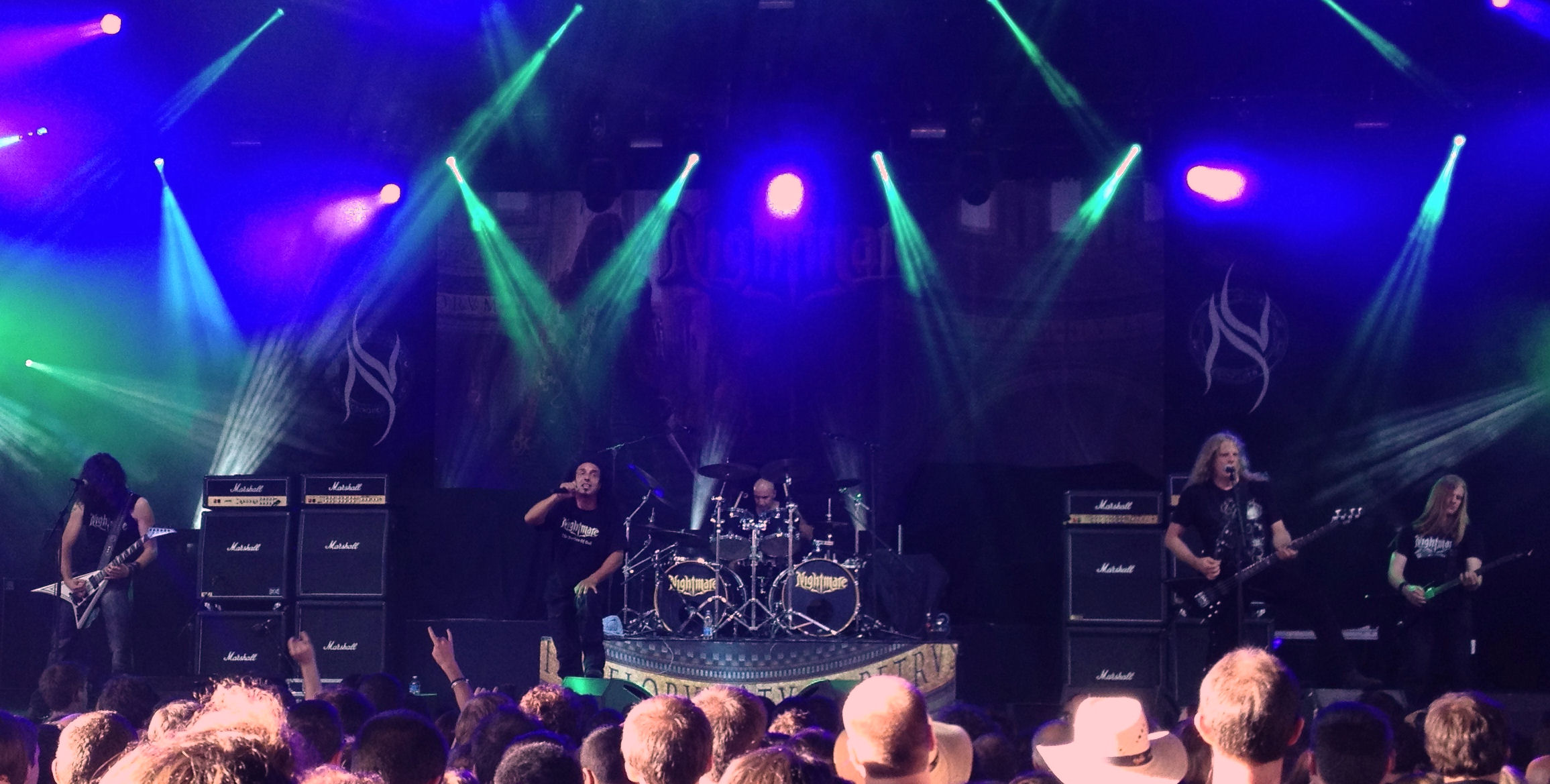 The French heavy metal band Nightmare live at the "Hard Rock Session" of the Foire au Vins in Colmar, Alsace on 5 August 2012